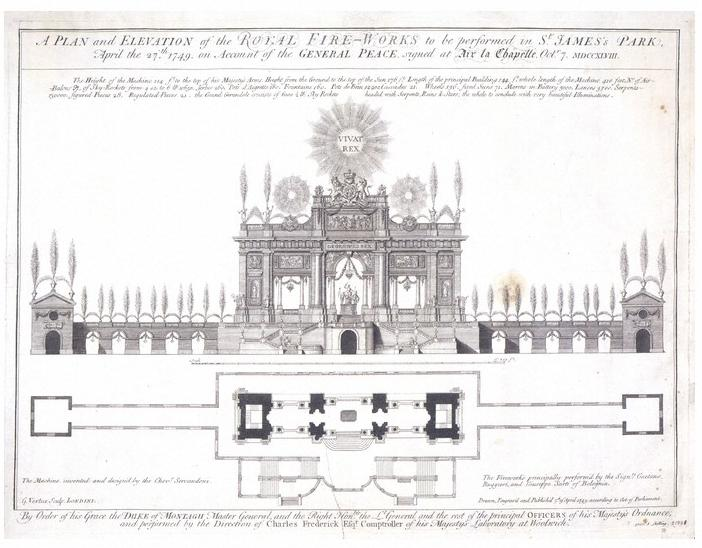 Print, 1749, Giovanni Niccolo Servandoni V&A Museum no. 21228 Techniques - Engraving, ink on paper Artist/designer - Giovanni Niccolo Servandoni (02/05/1695 - 19/01/1766) (designers), George Vertue (17/11/1684 - 24/07/1756) (engravers) Place - London, England Dimensions - Height 44 cm (paper), Width 57 cm (paper) Object Type - This object is a particular type of print called an engraving. Lines are cut into the flat surface of a metal plate using sharp tools. The engraving is made by transferring ink held in the lines onto a sheet of paper. Subject Depicted - The peace treaty of Aix-la-Chapelle was signed in 1748, ending the War of Austrian Succession. On 27 April 1749 a firework spectacular took place in St James's Park, London, to celebrate the Peace of Aix-la-Chapelle. This print shows the large wooden pavilion, painted to resemble stone, that was erected to launch the fireworks. The pavilion was 410 feet long and 114 feet high. The firework display was not an unqualified success: it rained on the day; the pavilion housing the fireworks caught fire and burned to the ground; and there was a public fight when the pavilion's architect, the Chevalier Servandoni, drew his sword and confronted the organiser of the event, the Duke of Montagu. People - The famous English composer George Frideric Handel wrote several pieces to celebrate the signing of the Peace of Aix-la-Chapelle. The most famous of these, the Music for the Royal Fireworks, was performed at the firework spectacular in St James's Park on 27 April 1749. The piece was a great success and is still one of Handel's most frequently performed compositions.